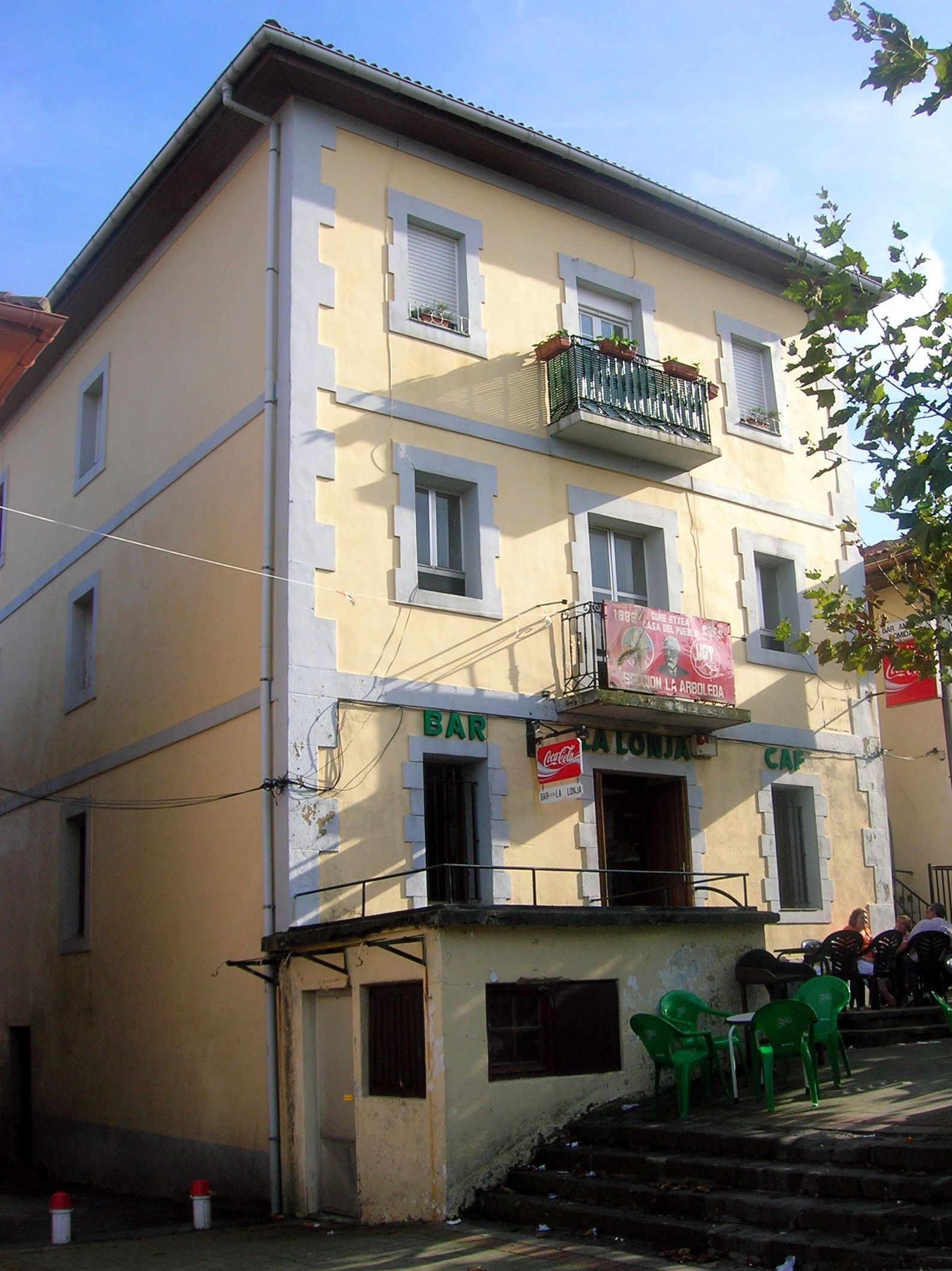 Casa del Pueblo (literally People's house, local see of Unión General de Trabajadores union and of Partido Socialista de Euskadi - Euskadiko Ezkerra political party) in La Arboleda-Zugaztieta, Trápaga-Trapagaran, Biscay, Spain. The local branch was founded in 1888.